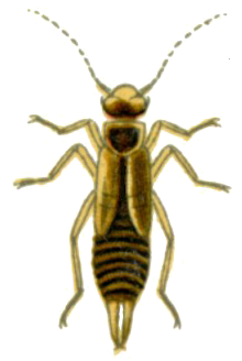 A drawing of the Minor earwig, Labia minor, from Australia's Commonwealth Scientific and Industrial Research Organisation.